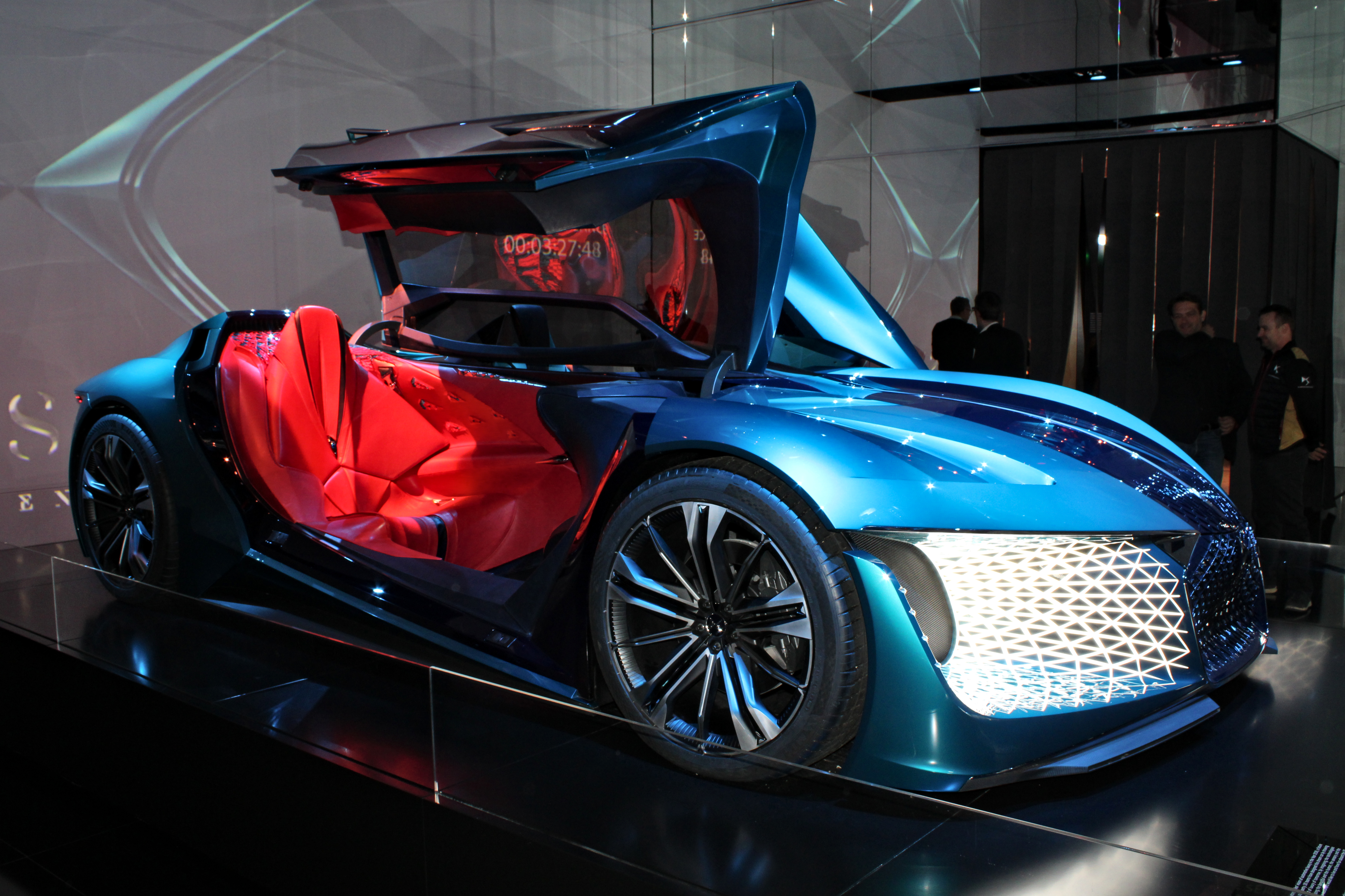 DS X E-Tense at Paris Motor Show 2018